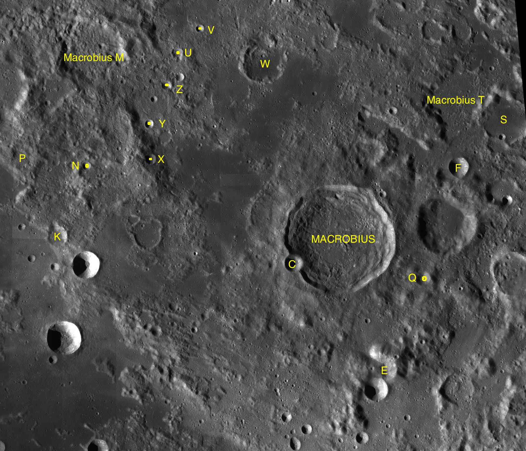 Part of the chart LAC-43 used for the presentation. Fredholm is the crater just south-west of Macrobius-E.